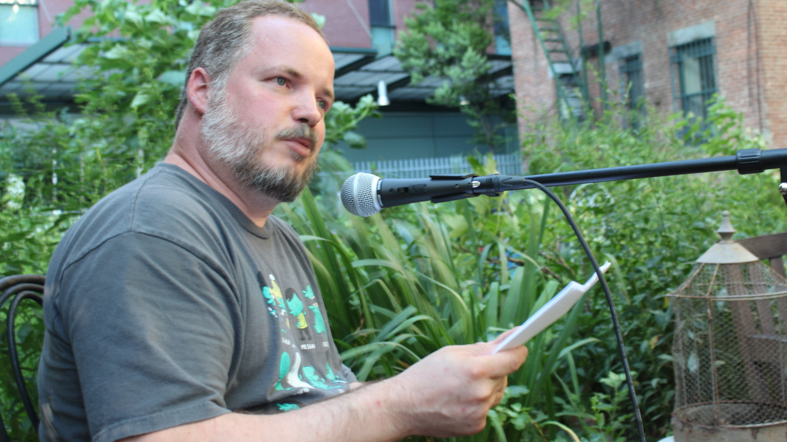 Patrick Freivald Reads at HWA NY Chapter Oasis Garden Reading July 12, 2019